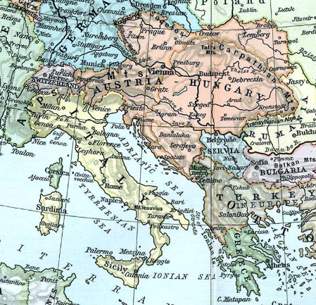 Map of the Adriatic, Ionian, and Tyrrhenian seas in 1911